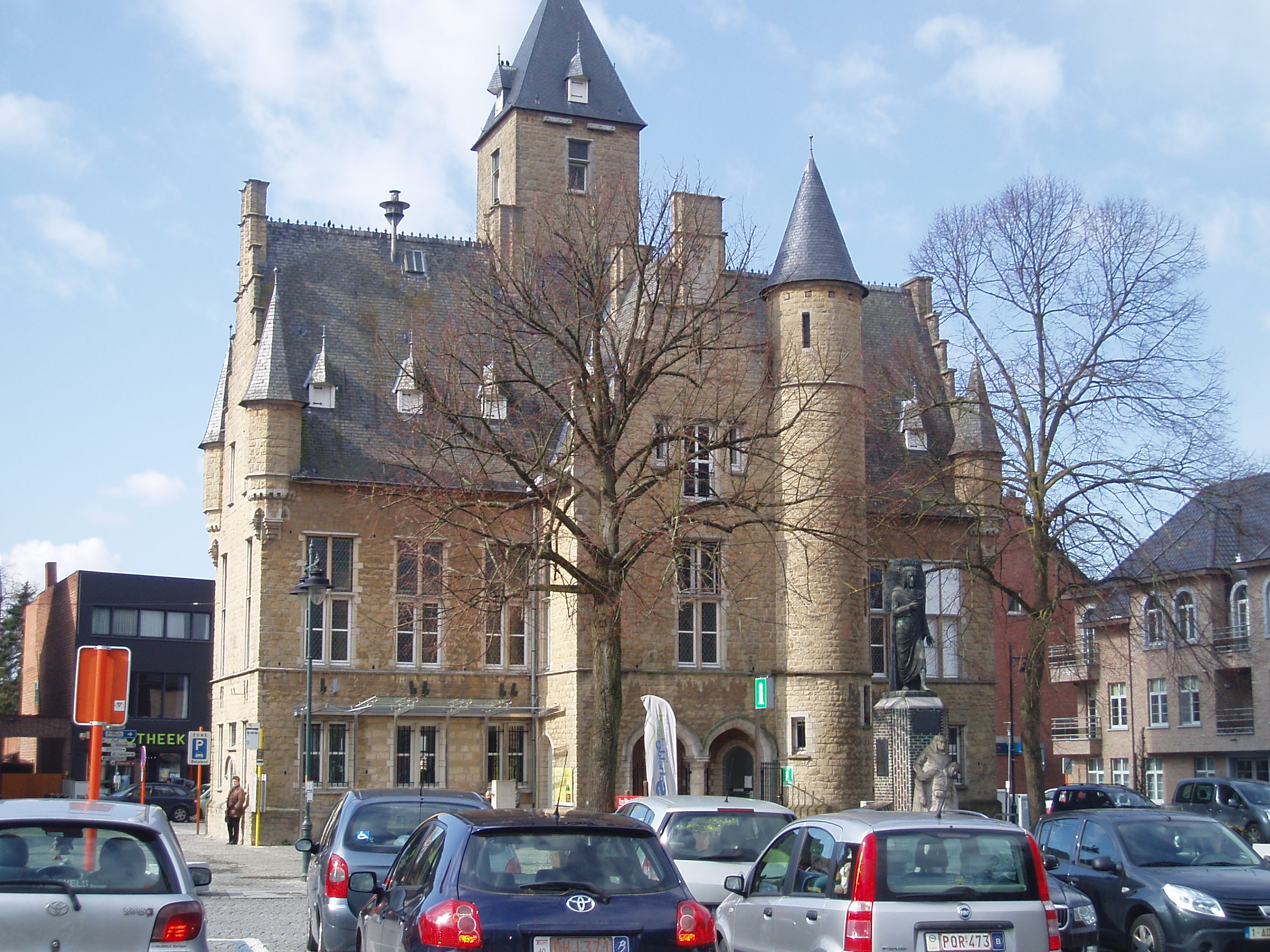 Bornem Landhuis